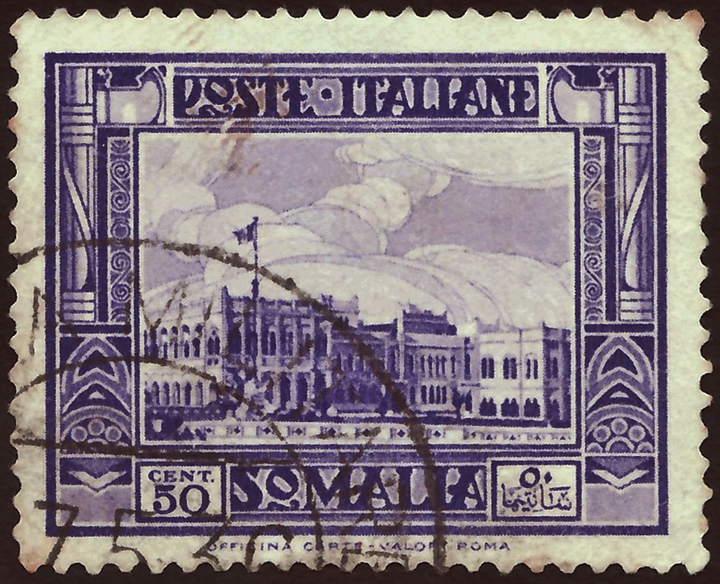 Stamp of Italian Somaliland; 1932; definitive stamp of the series "Pictorals - 2nd issue"; stamp motive with the Government Palace ("Palazzo del governo") in Mogadishu; stamp postmarked Stamp: Michel: No. 179C; Yvert & Tellier: No. 170(A); Scott: No. 146a Color: violet on normal paper Watermark: Italy No. 1 (crown) Nominal value: 50 Cent. ( Centesimi) Postage validity: from 1 March 1932 until 1941 date QS:P,+1950-00-00T00:00:00Z/7,P580,+1932-03-01T00:00:00Z/11,P582,+1941-00-00T00:00:00Z/9 Stamp picture size (printed area of a single stamp without signature line): 28.0 x 21.5 mm